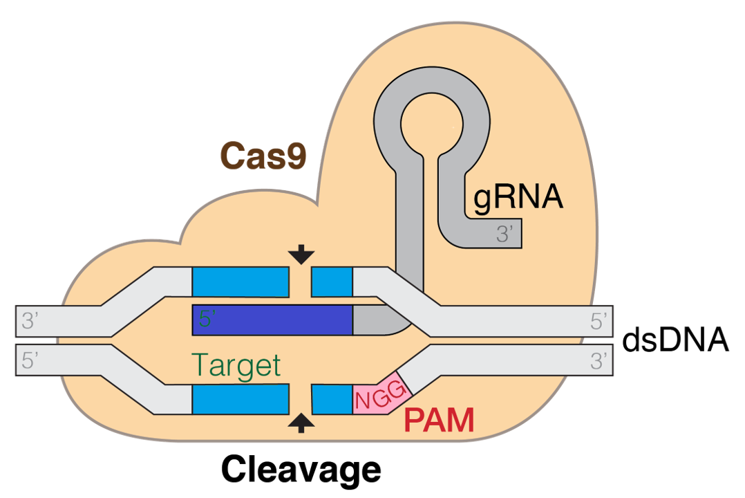 Colour-friendly version of User:Mariuswalter's gRNA-Cas9 complex involved in CRISPR gene editing